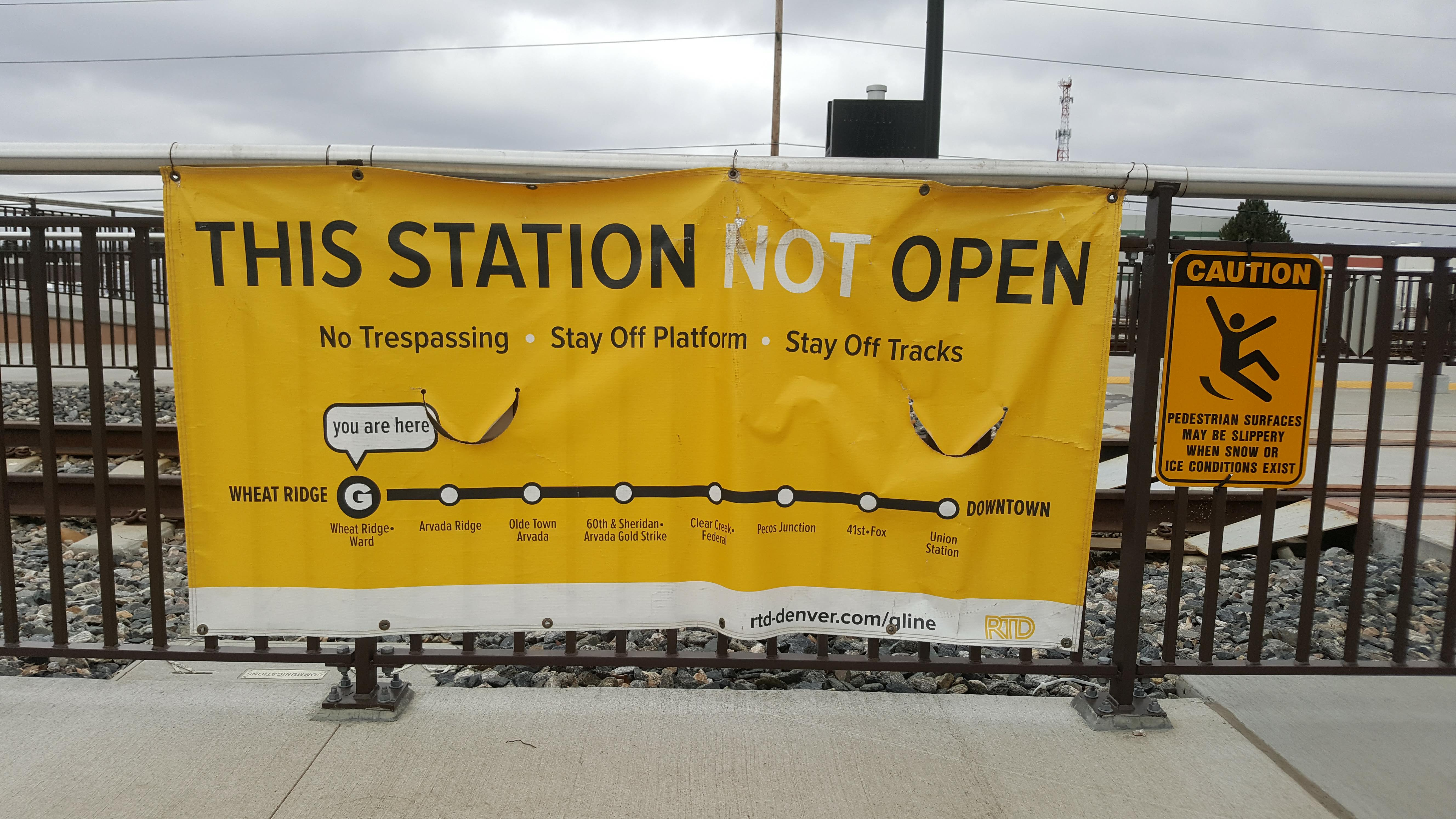 This Station Not Open banner, Wheat Ridge-Ward Station